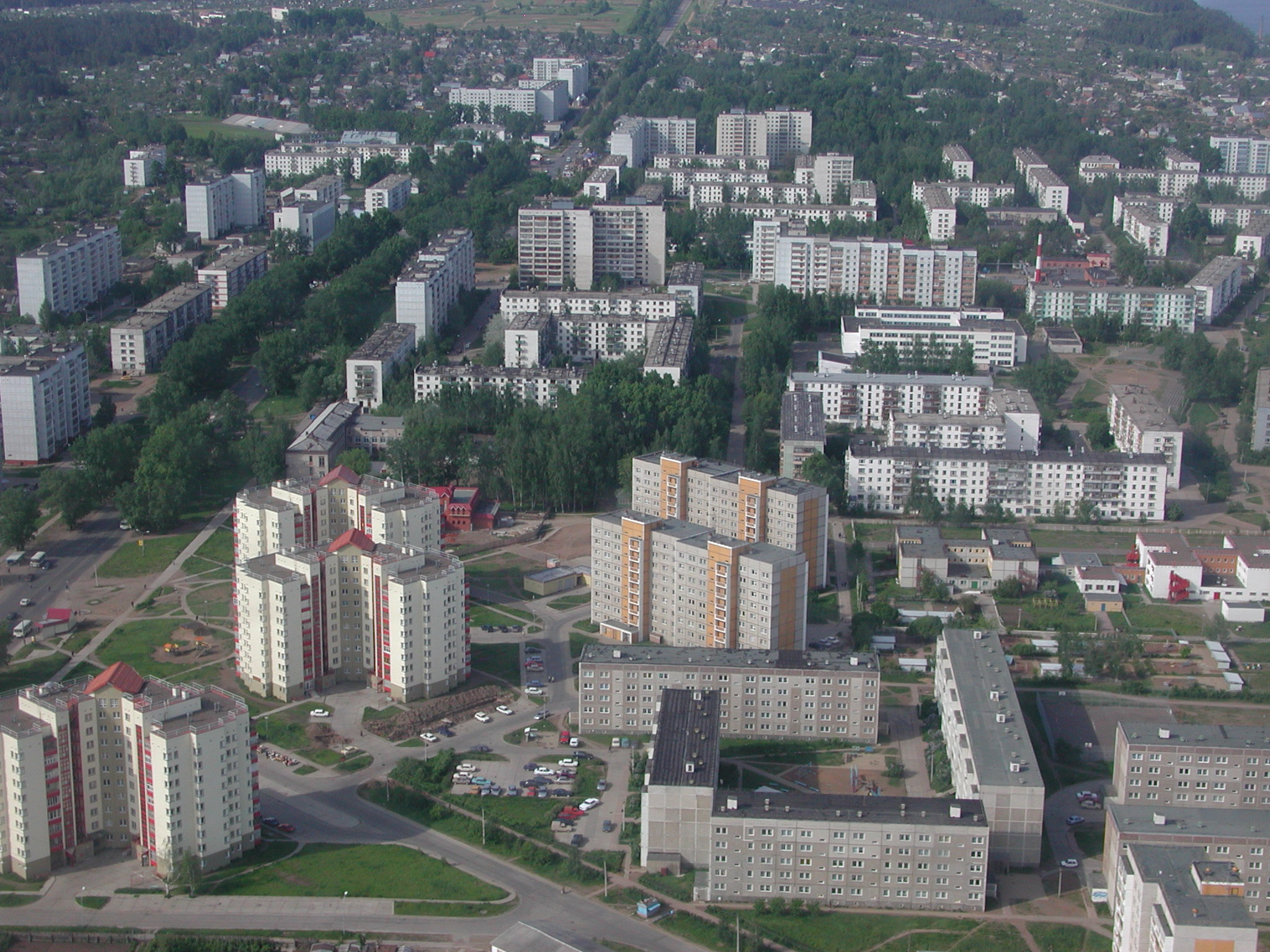 City oh Chaykovsky, Perm Krai